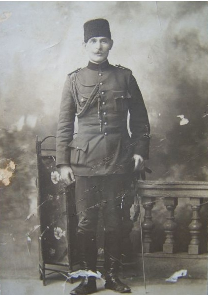 Omer Nadji Bey (1878-1916)